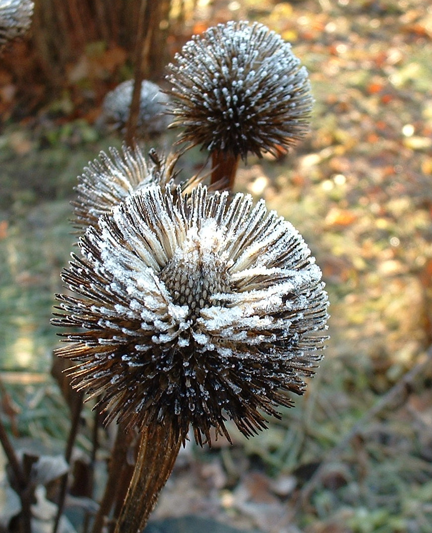 frosted seedhead of Echinacea purpurea: this is the seedhead of an echinacea...the finches love them